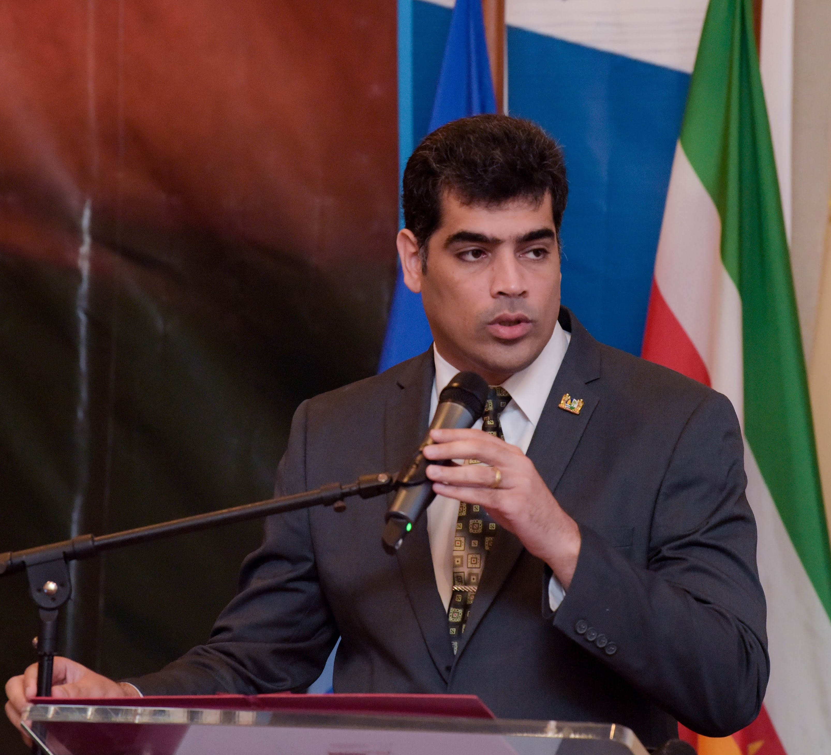 Speech Adhin